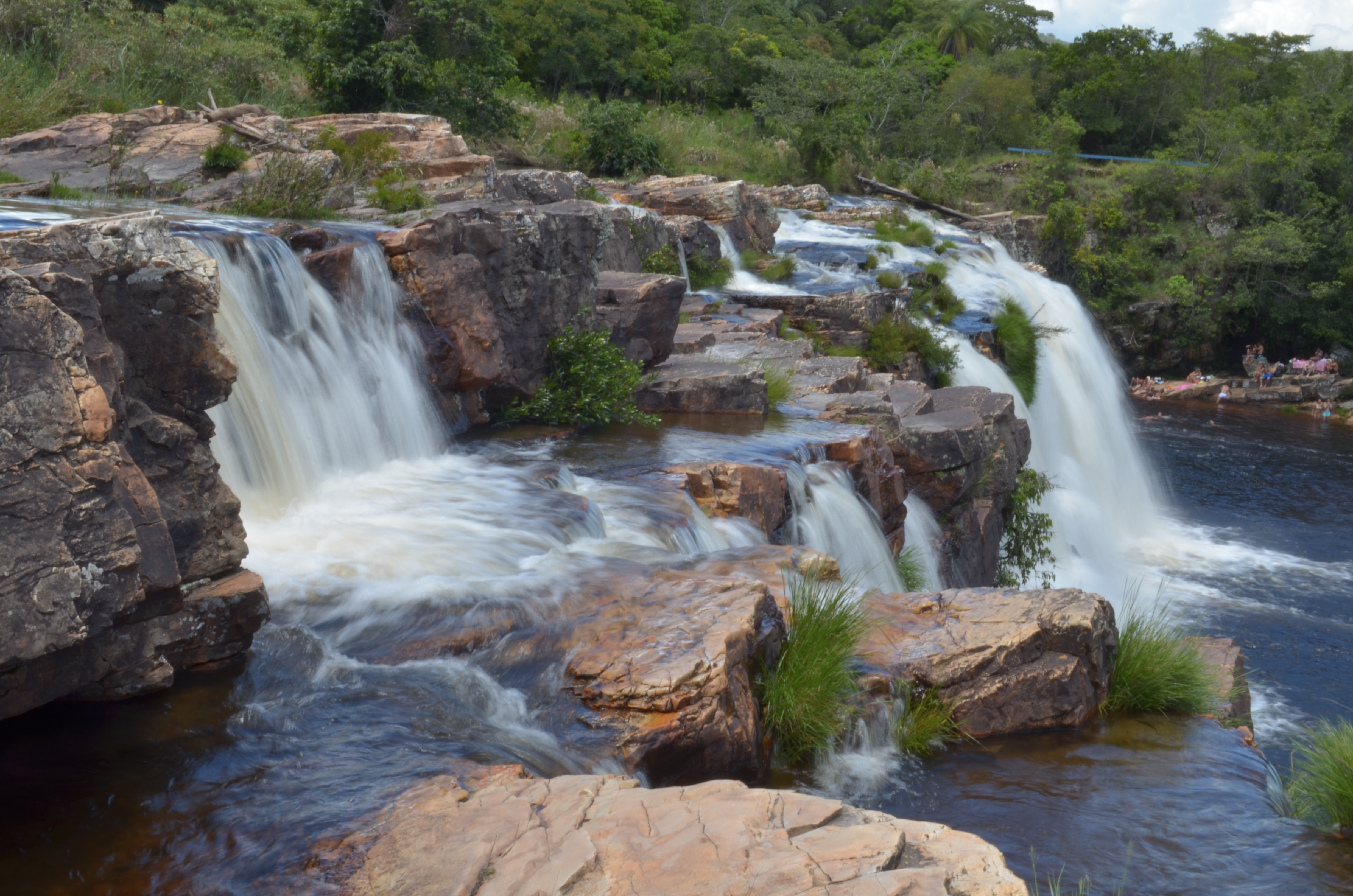 Cachoeira Grande Serra do Cipó - Minas Gerais